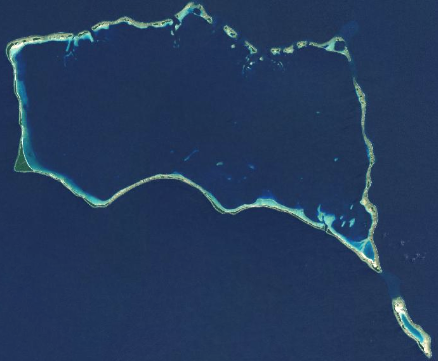 Satellite image of Mili atoll in the Marshall Islands. The Knox Atoll, visible at the bottom right, was previously connected to Mili at Klee Passage.